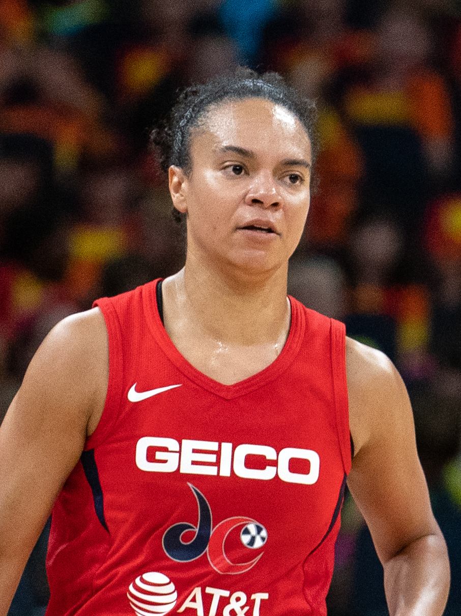 Minnesota Lynx vs Washington Mystics on July 24 2019 at Target Center in Minneapolis, Minnesota; the Mystics won the game 79-71.